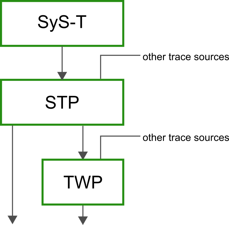 The diagram shows the relation between the various MIPI trace specification